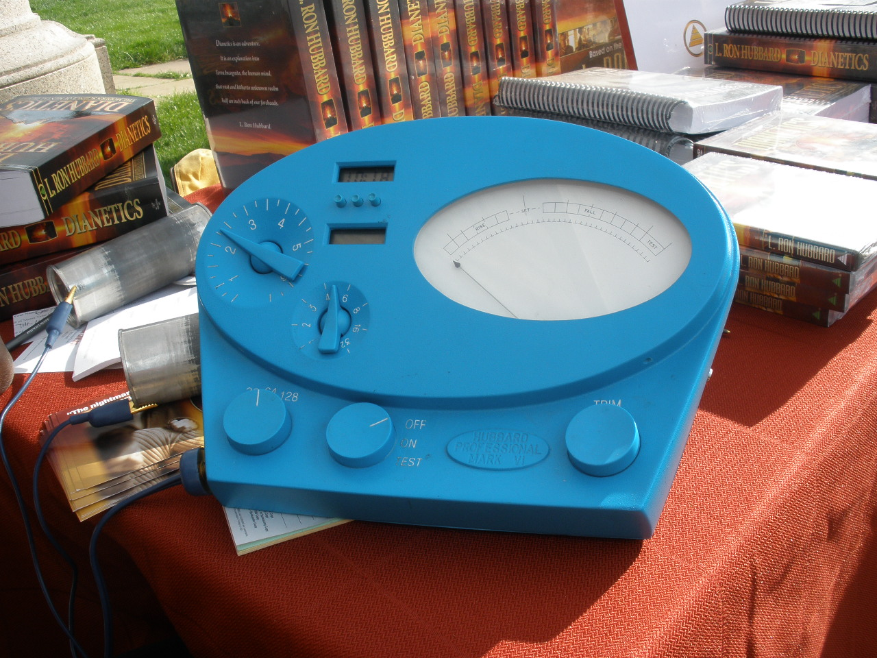 "Hubbard Professional Mark VI" e-meter used by Scientology personnel at the 2011 Capitol Hill People's Fair in Civic Center Park in Denver. Note the two "tin can" cylindrical electrodes on the table at left, connected to the e-meter, which are held in the subject's hands during "stress testing".